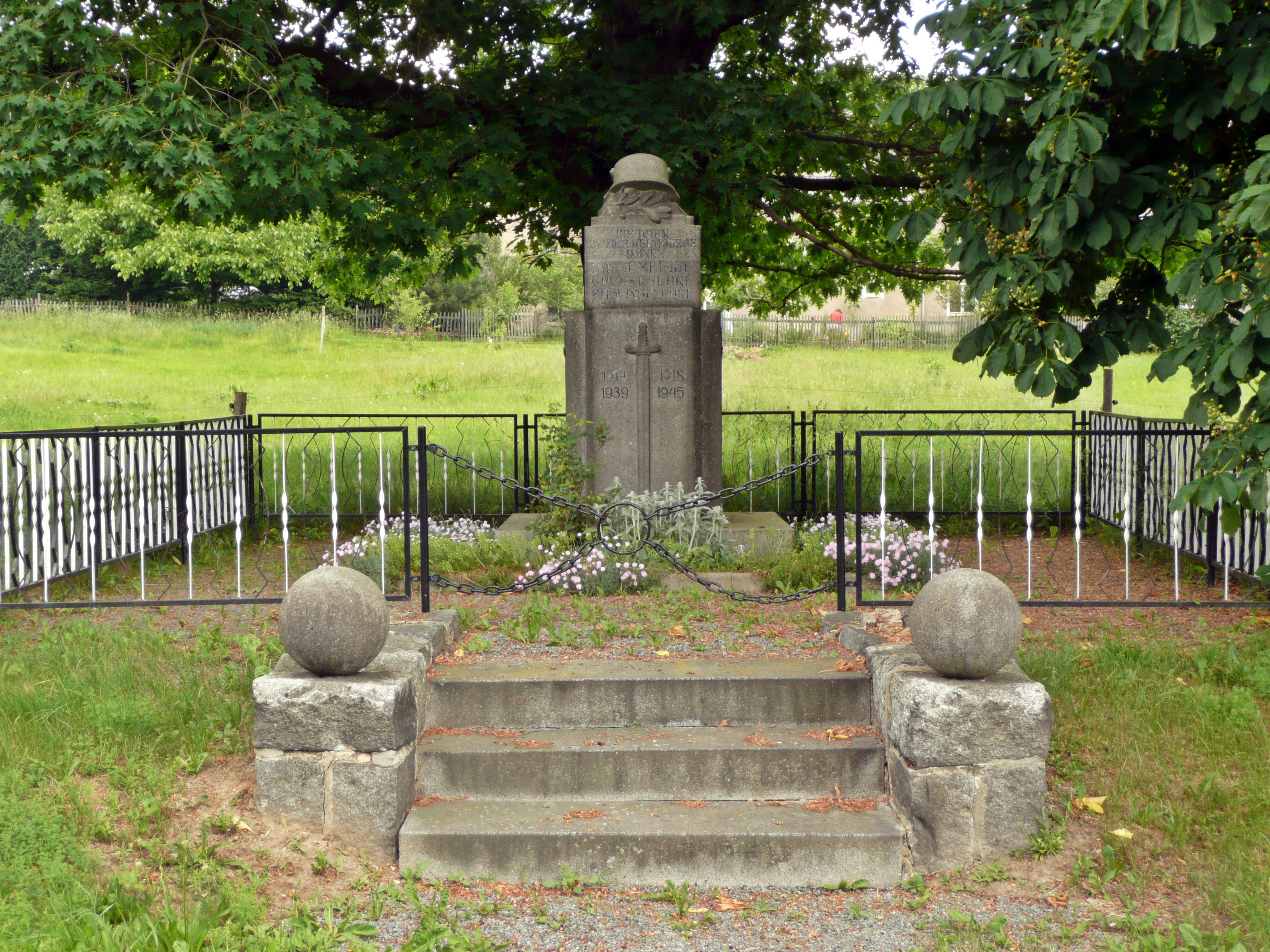 This image shows the World War I/II memorial in Göppersdorf (Municipality subdivision of Bahretal).